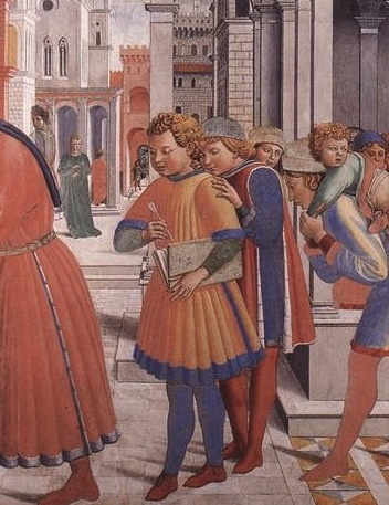 augustine at the school of tagaste